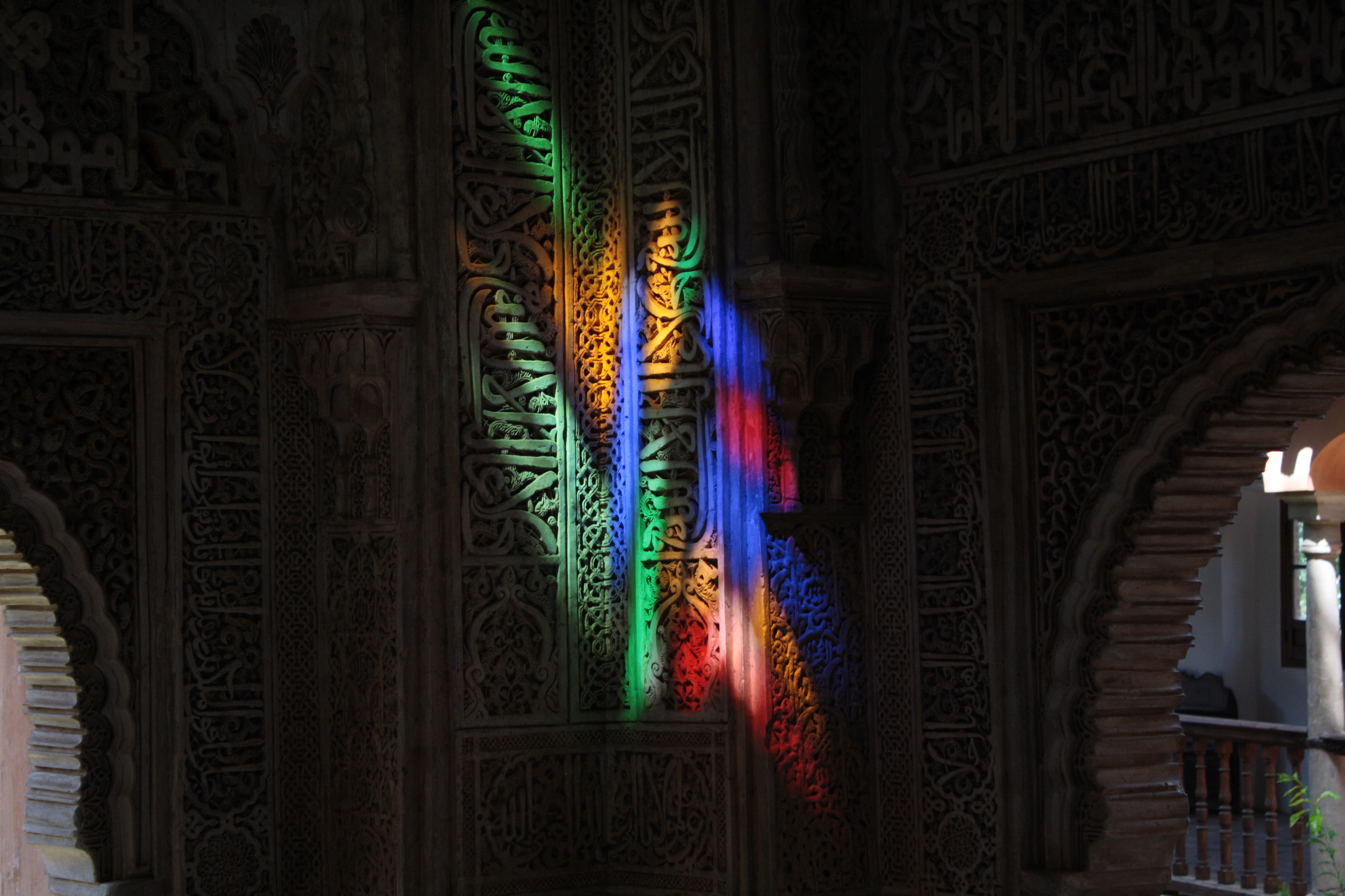 Colors in the Alhambra (Granada)